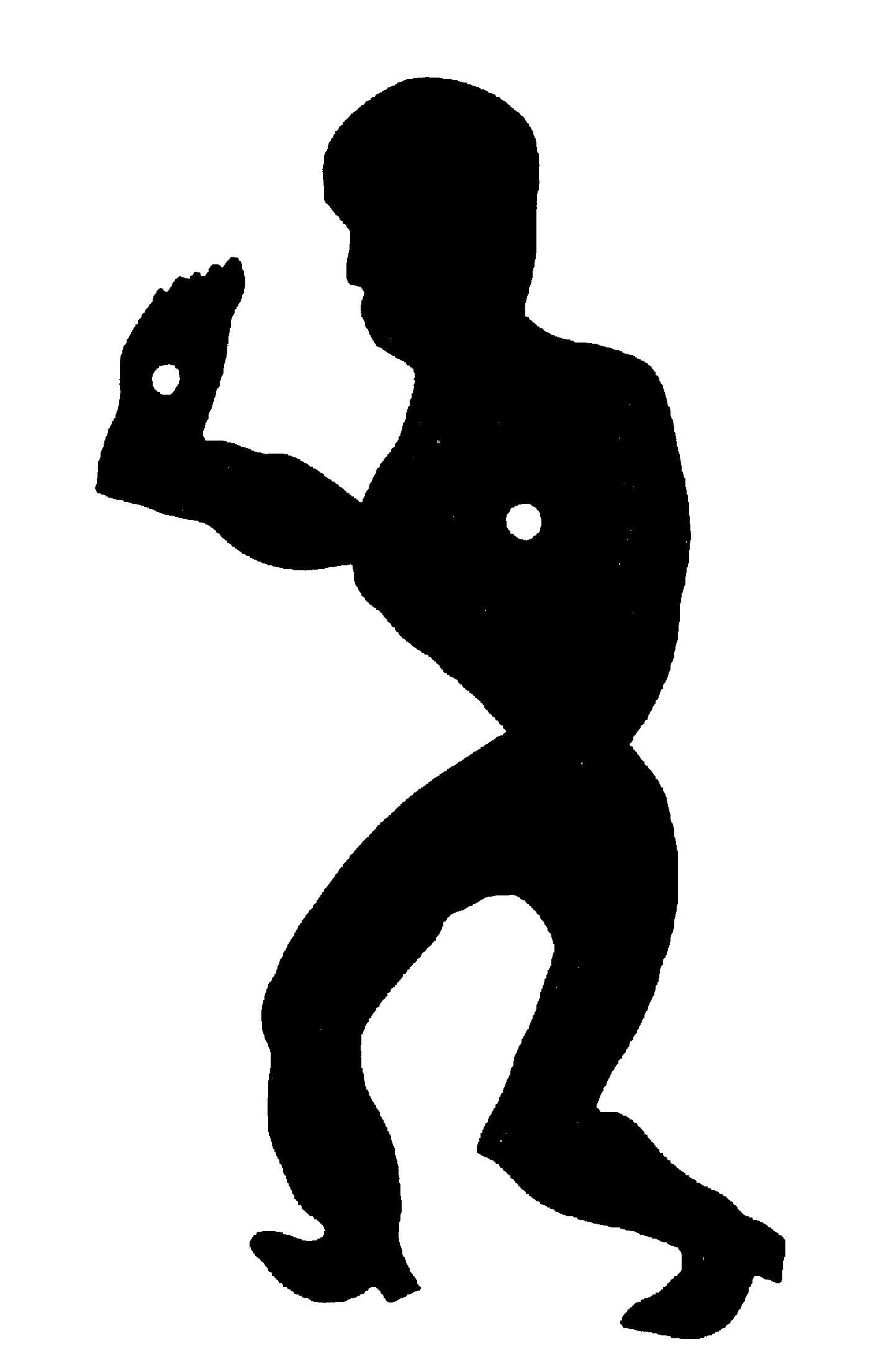 Karaguz, shadow puppet, Libya